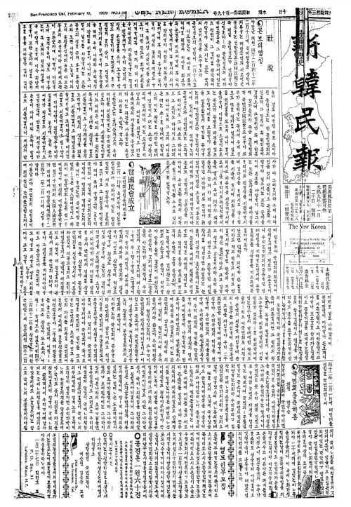 The first issue of The New Korea (신한민보) published on February 10, 1909